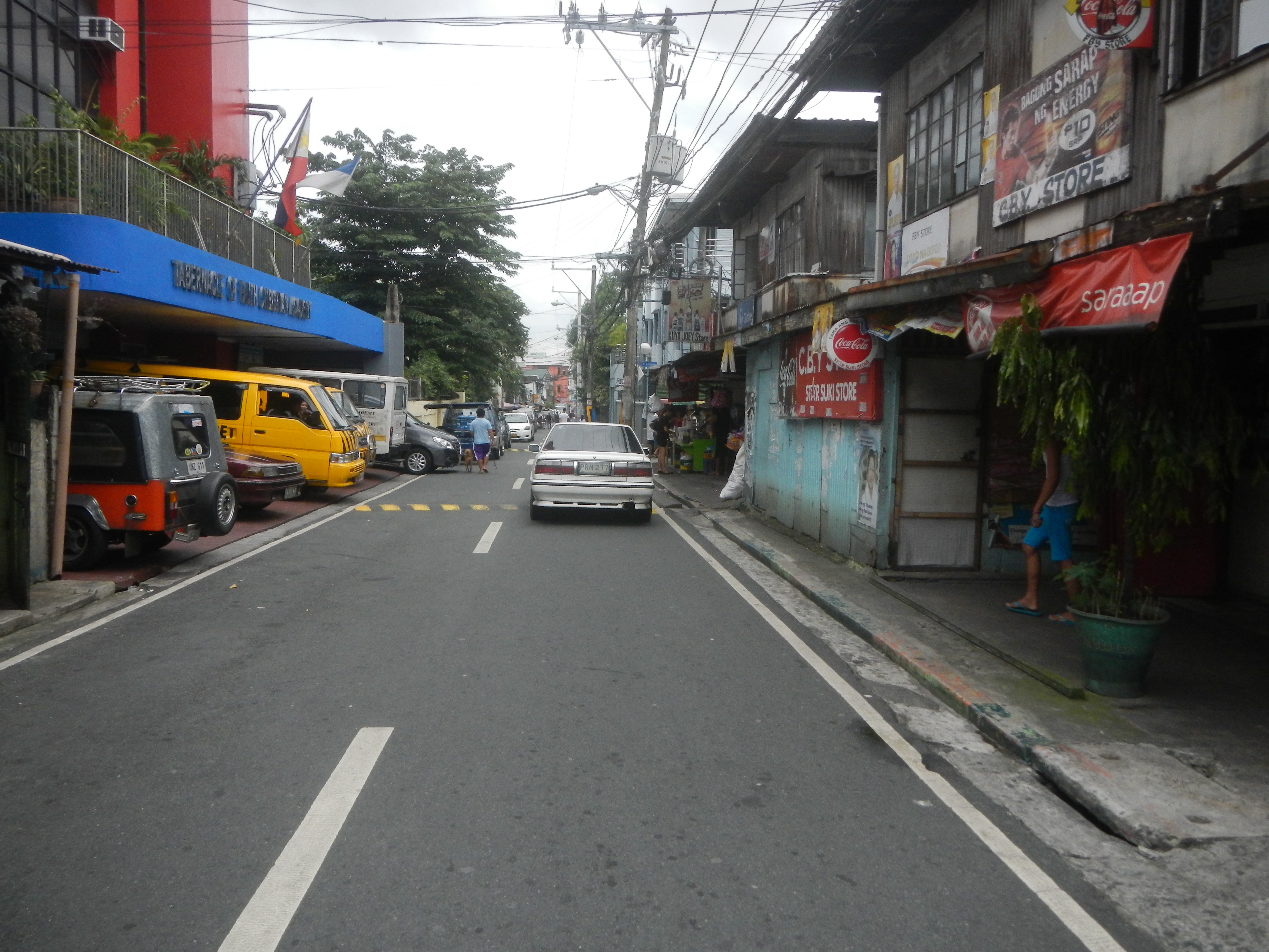 Aurora Boulevard in Juan Ruiz Street between the junction with A. Luna Street and the intersection with N. Domingo Street Juan Ruiz, a Katipunero who took part in the Siege of El Polvorin, where the Pinaglabanan Shrine is located, in the List of barangays of Metro Manila, Barangays Salapan beside Ermitaño, San Juan, Metro Manila by the Quezon City Boundary Monument in San Juan City in the List of barangays of Metro Manila Legislative districts of Quezon City Districts 6, Barangays of Quezon City, Barangays Mariana and Valencia, Quezon City connected by the Ermitaño Bridge and Ermitaño Bridge I upon San Juan River (Metro Manila) by the Ermitaño Linear Park upon Broadway Avenue (formerly Doña Juana Rodriguez; New Manila neighbourhood of Quezon City) from Aurora Boulevard (Note: Judge Florentino Floro, the owner, to repeat, Donor Florentino Floro of all these photos hereby donate gratuitously, freely and unconditionally all these photos to and for Wikimedia Commons, exclusively, for public use of the public domain, and again without any condition whatsoever).